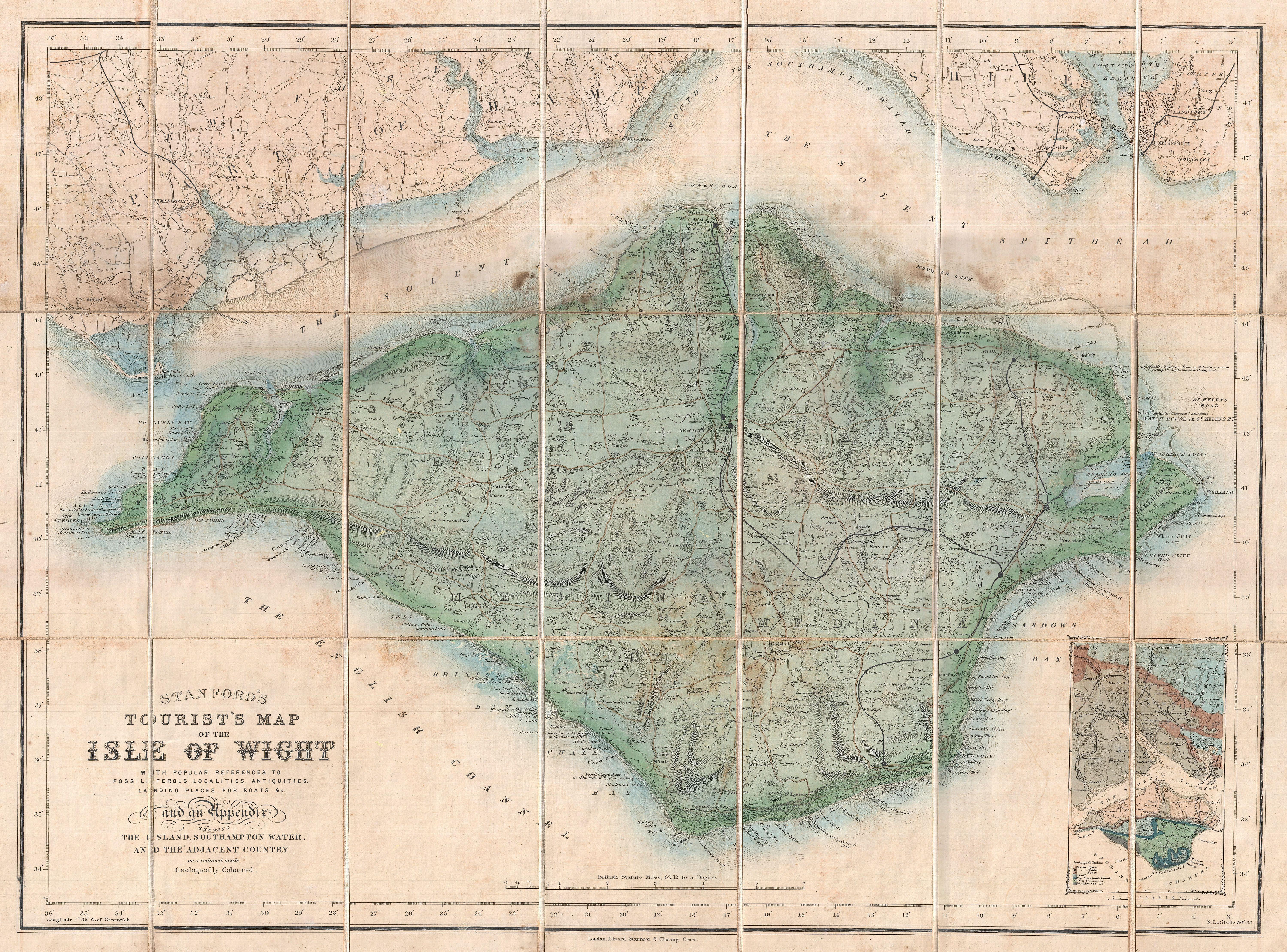 An uncommon 1879 pocket map of the Isle of Wight prepared by Edward Stanford. Covers the entire island as well as adjacent parts of Hampshire across the Solent Spithead. Wight is known for its unusual geology and ancient fossil’s. This map attempts to locate likely locations for fossil hunting as well the sites of various antiquities and island communities. A geological overview of the region appears in an inset in the lower right quadrant. Though most maps are without substantial provenance, this map is known to have been originally purchased for the European tour of the prominent 19th century New Yorker Andrew Haswell Green (1820 - November 13, 1903). A. H. Green was a New York lawyer, city planner, civic leader and agitator for reform. Called by some historians a hundred years later the 19th century Robert Moses, he held several offices and played important roles in many New York projects, including the development of Riverside Drive, Morningside Park, Fort Washington Park, and Central Park. His last great project was the consolidation of the Imperial City or “City of Greater New York” from the earlier cities of New York, Brooklyn and Long Island City, and still largely rural parts of Westchester, Richmond and Queens Counties. In 1903 Green was murdered in a case of mistaken identity. He is buried in Worcester. In 1905 his family estate in Worchester was turned into a public park. Green's personal effects and other belongings were stored for over 100 years until recently being rediscovered and offed for sale.